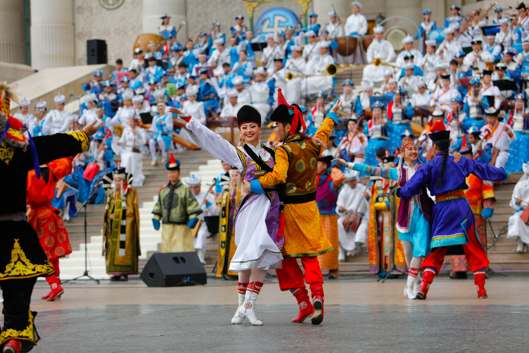 Ceremonial concert for 800th birth anniversary of Khubilai the Wise King on Square of Chingis Khaan